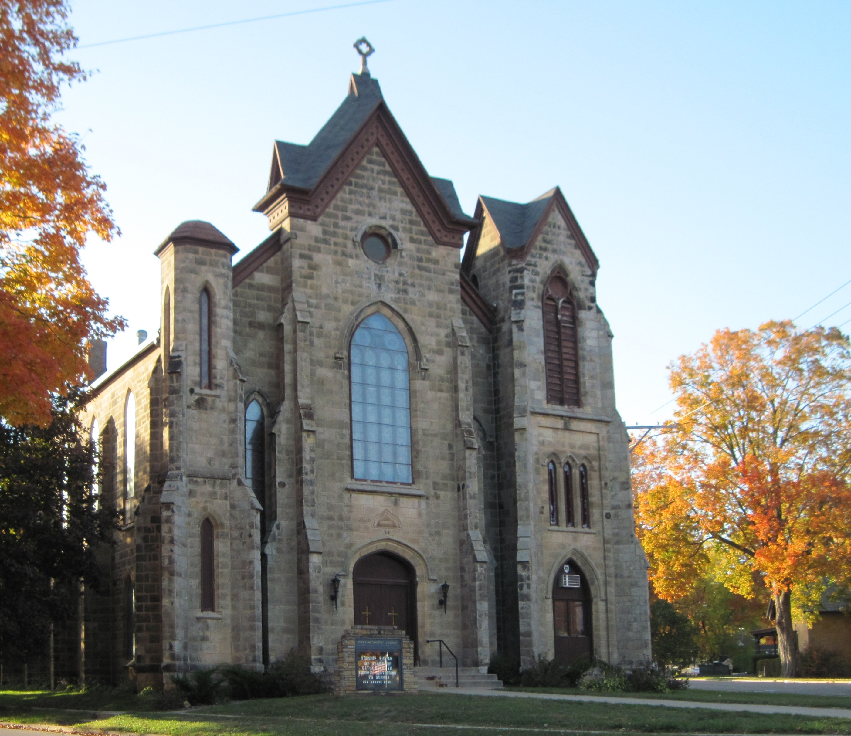 First Methodist Church in Mineral Point Historic District.